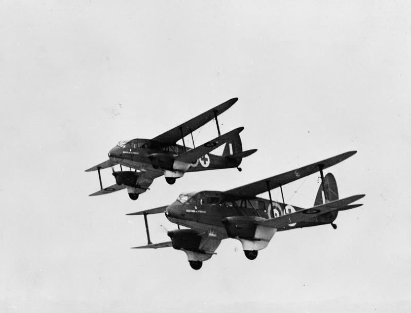 Aircraft of the Royal Air Force 1939-1945- De Havilland Dh 89 Rapide and Dominie. DH.89A Rapide ambulance aircraft, Z7258 “Women of the Empire” and Z7261 “Women of Britain”, flying low over Hendon, Middlesex, the day before they were presented to No. 24 Squadron RAF by the “Silver Thimble Fund”. Originally civilian aircraft, Z7258 (formerly G-AFMH) and Z7261 (G-AFMJ) were impressed for the RAF in July 1940.